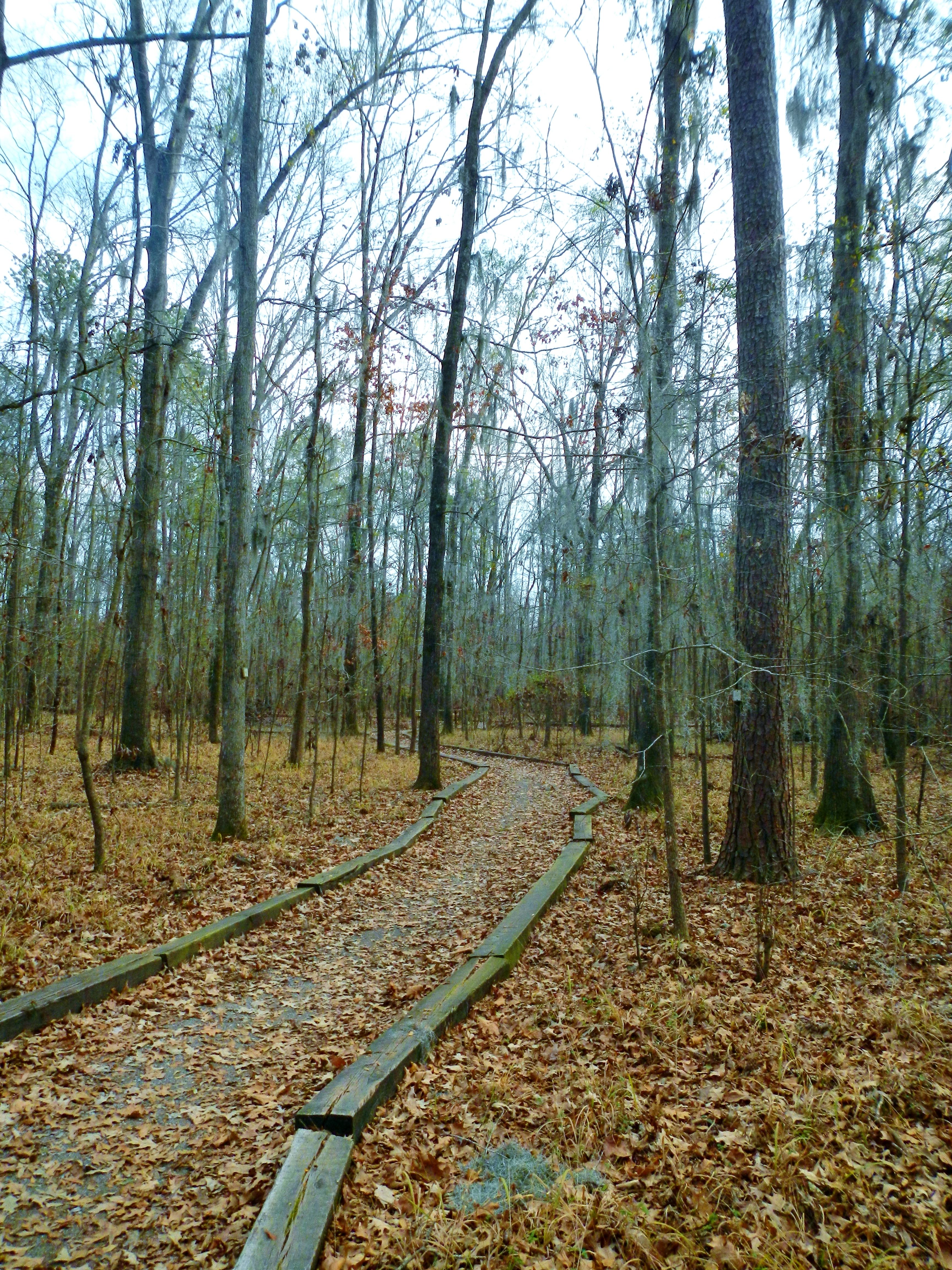 This is a photograph of the William Bartram Arboretum in Ft. Toulouse-Jackson Park near Wetumpka, Alabama.